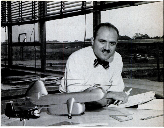 Frank Piasecki, 1951